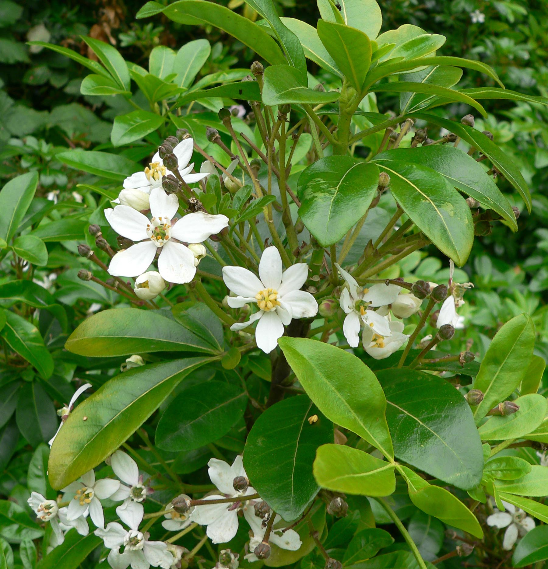 Photo of Choisya ternata at the San Francisco Botanical Garden